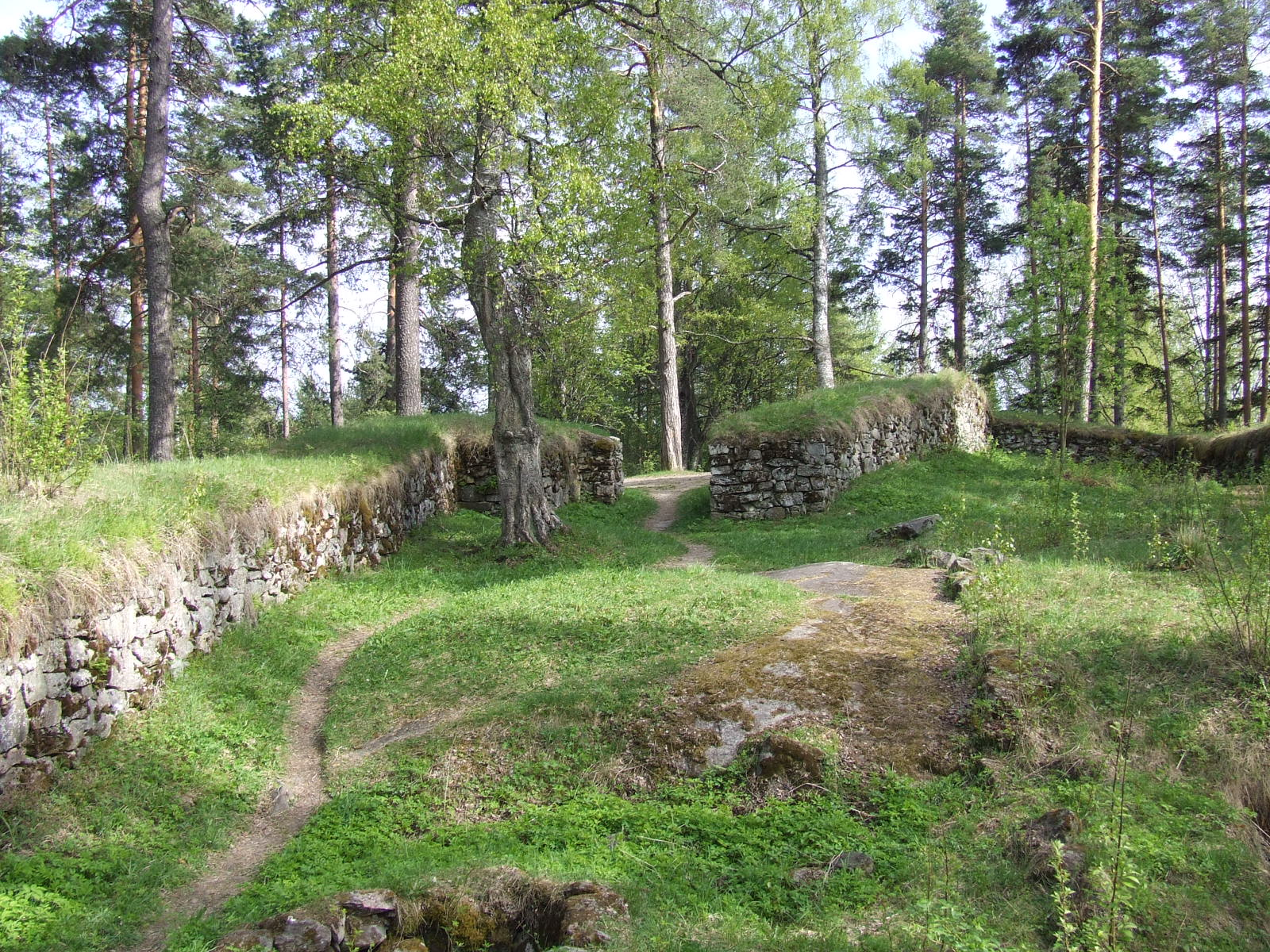 The ruins of Brahelinna in Ristiina, Finland